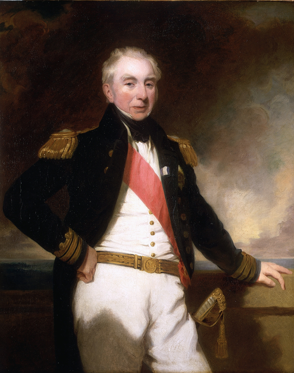 A three-quarter length portrait to right wearing admiral’s undress uniform, with the ribbon and star of the GCB and the ribbon of the San Domingo Medal. His right hand is on his hip and his left rests on a parapet.